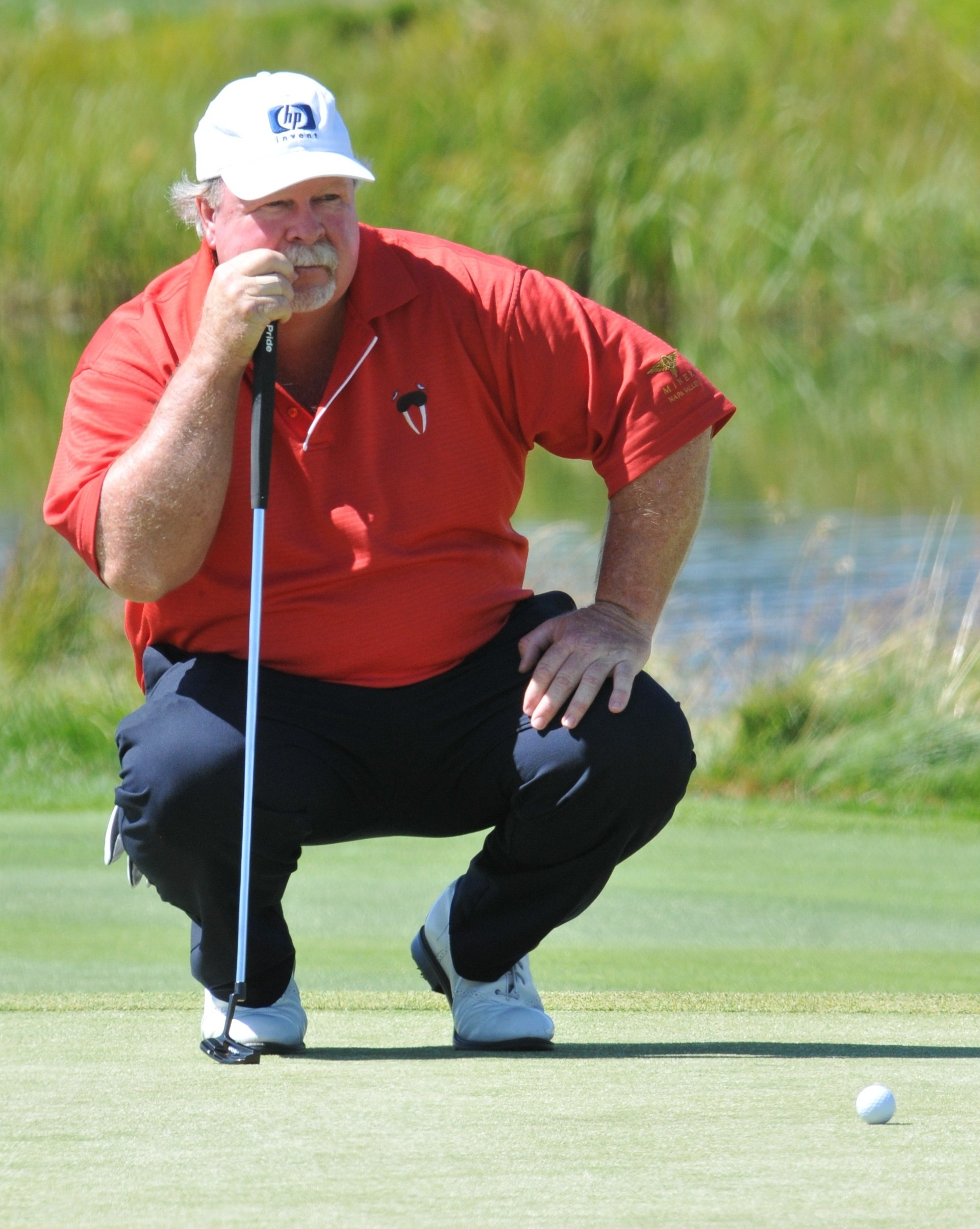 © 2009, Eric Yaillen/Oregon Golf Association